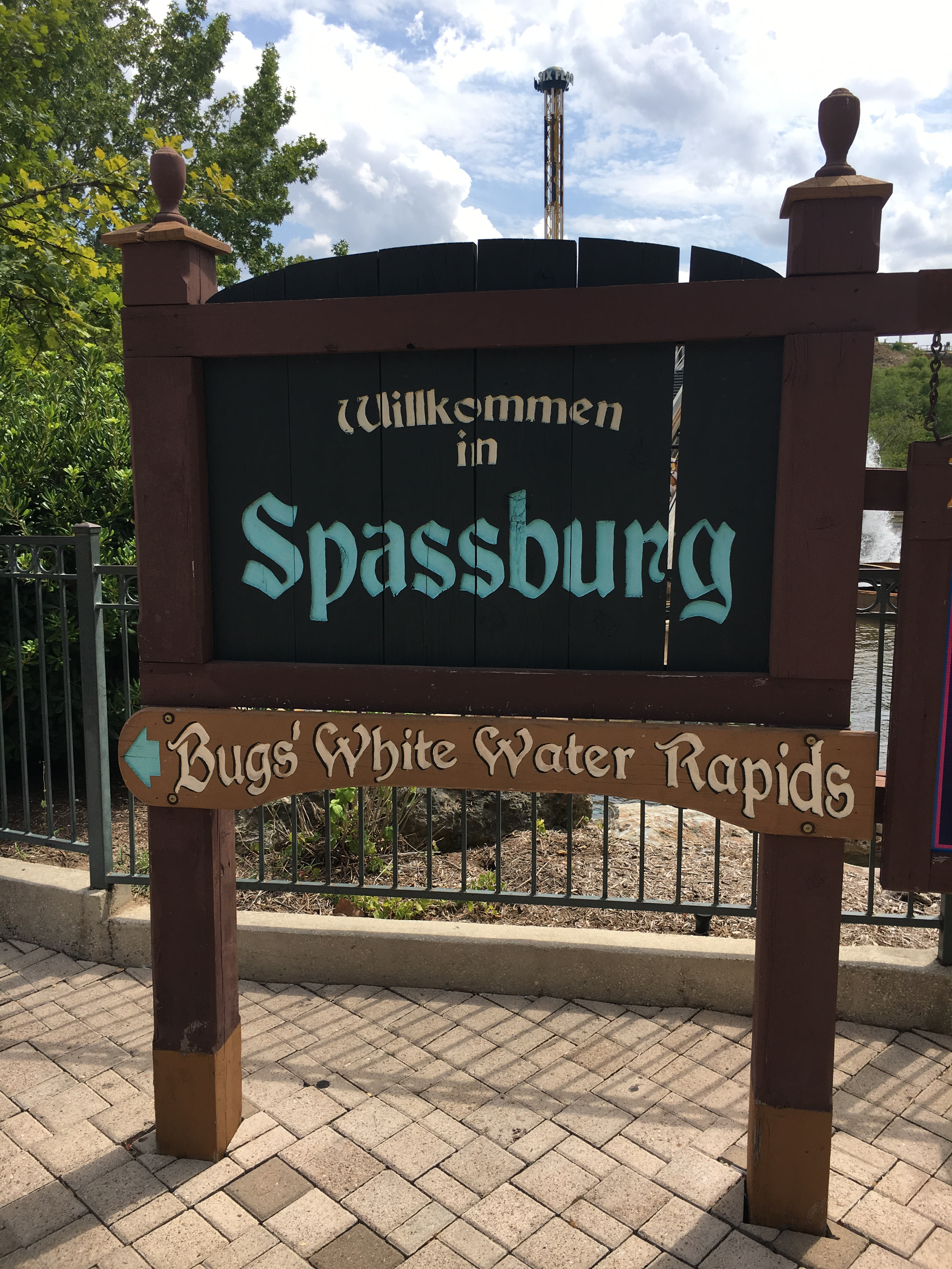 One of the many entry ways to Spassburg at Six Flags Fiesta Texas.